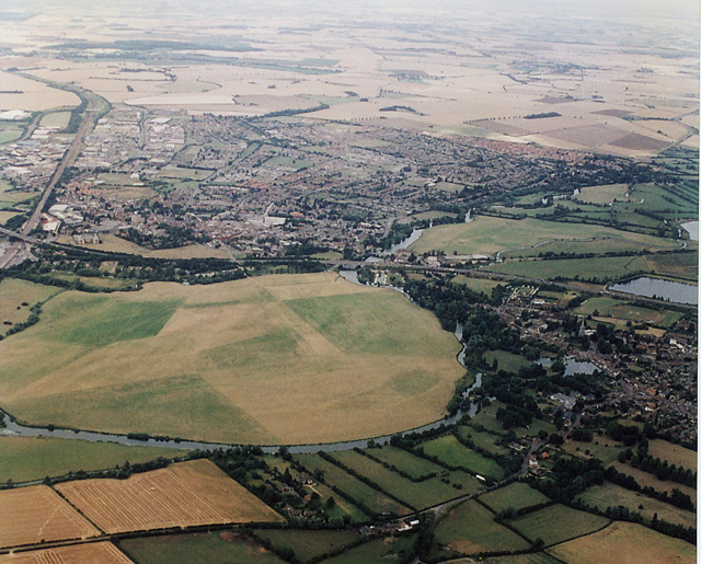 Huntingdon From The Air. View looking across the Great Ouse towards Huntingdon. The dual carriageway crossing the river and skirting the town is the A14. The area bounded by the river in the foreground is Port Holme, reputedly the largest meadow in England. On the left of the picture is the east coast mainline between London and Peterborough. The small town on the right of the picture is Godmanchester, once the Roman town of Dvrovigvtvm.